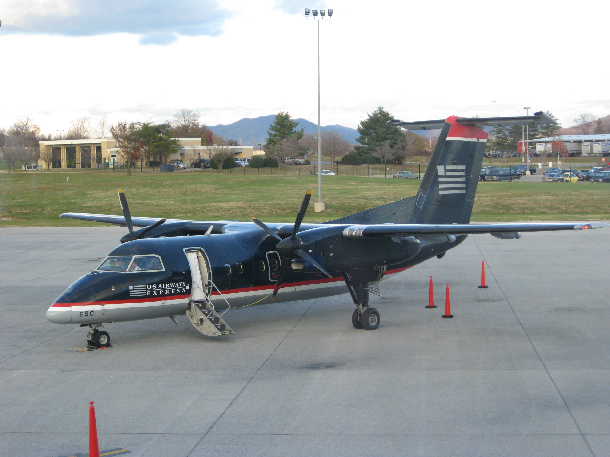 A US Airways Express Bombardier Dash 8-100 operated by Piedmont Airlines sits parked at Roanoke Regional Airport in Virginia.